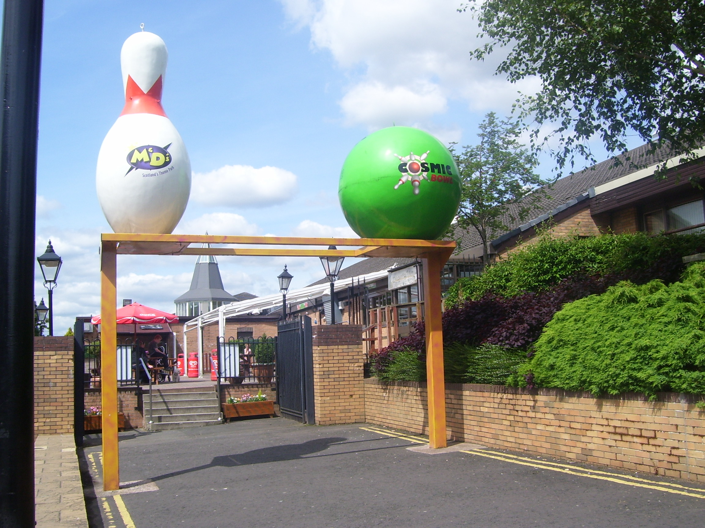 Bowling Entrance